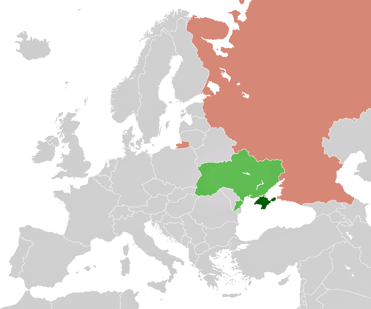 map of Europe, highlighted Ukraine with Crimea, and Russia